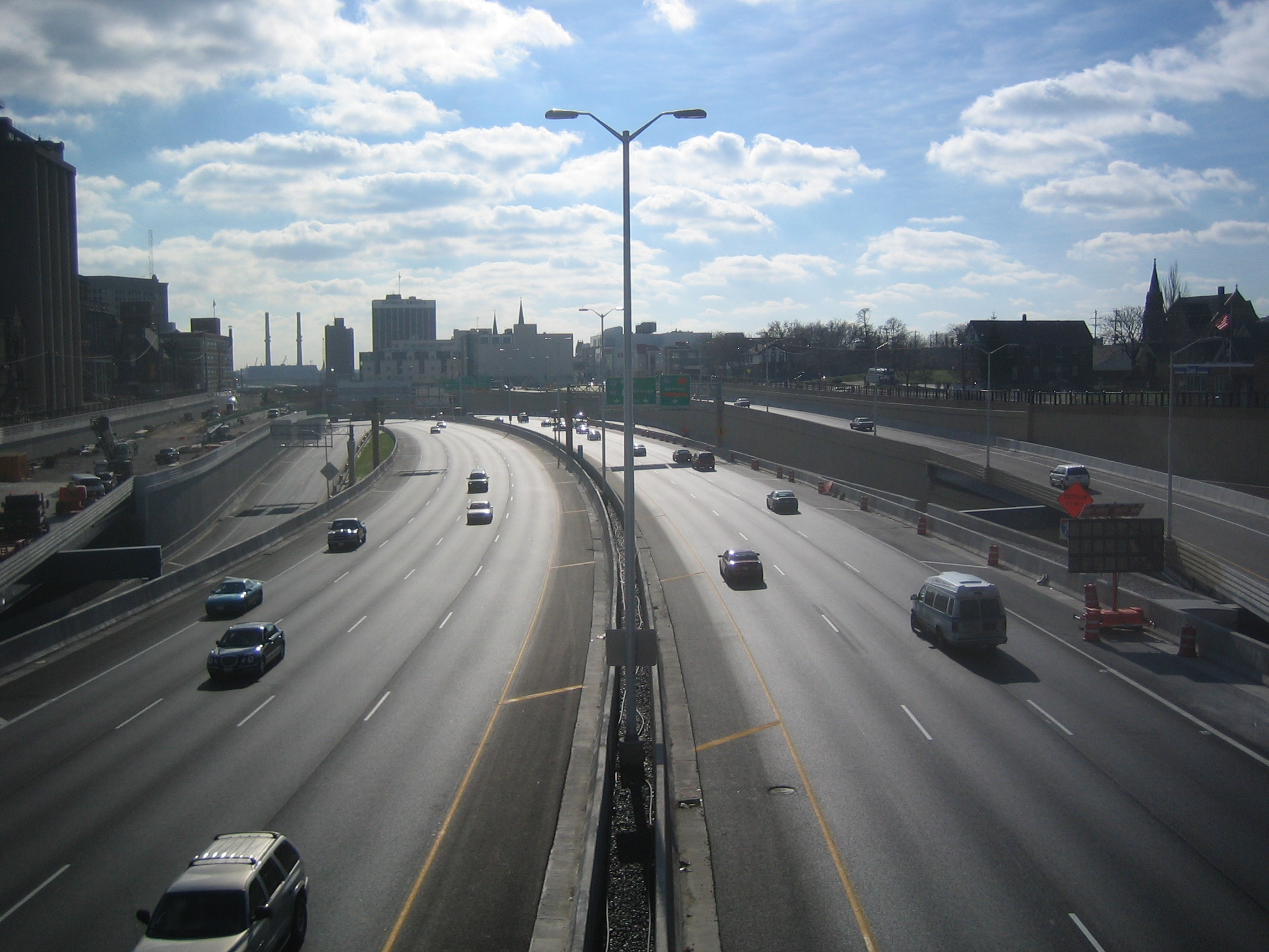 Looking south on Interstate 43 in Milwaukee.